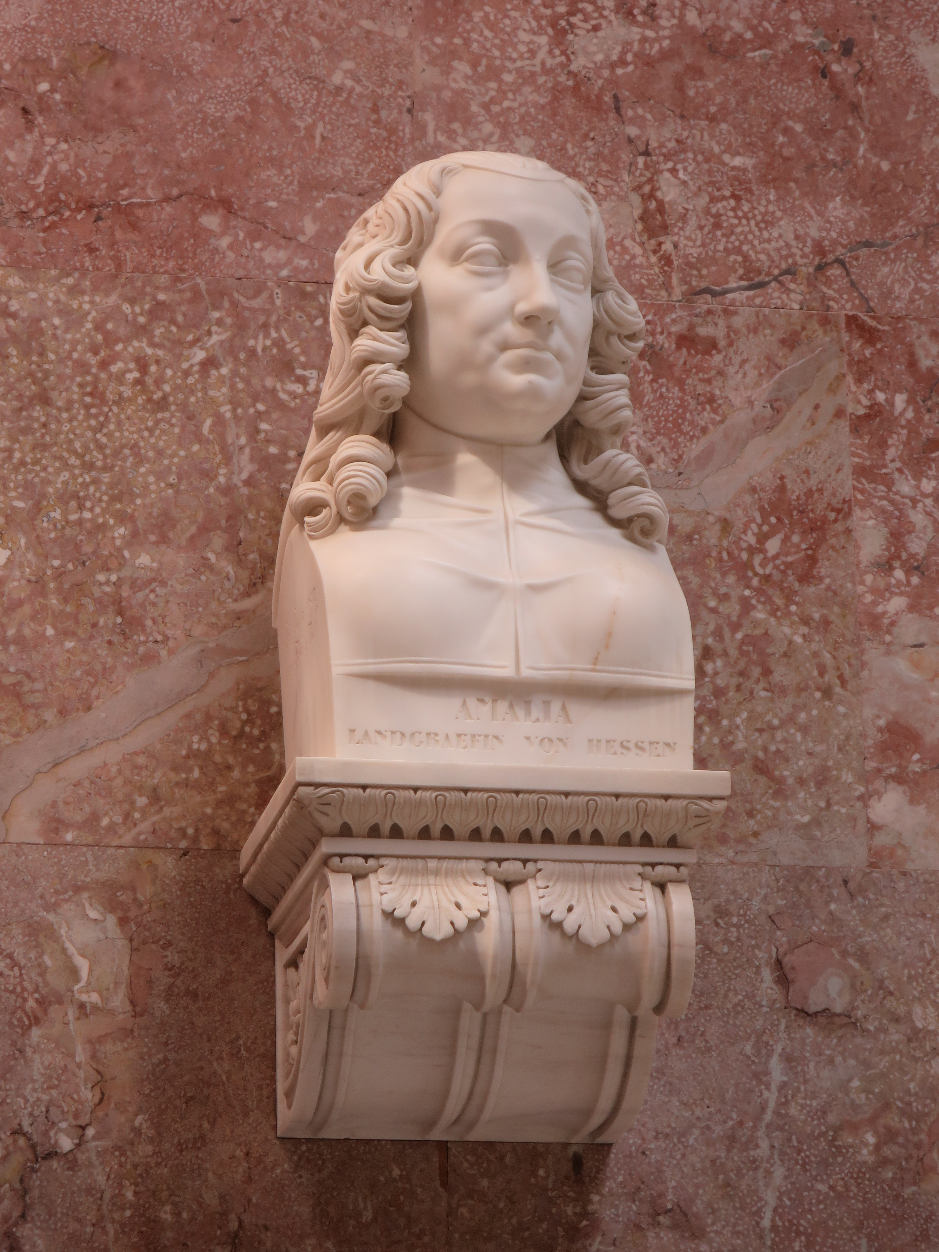 Bust of Amalie Elisabeth in Walhalla monument